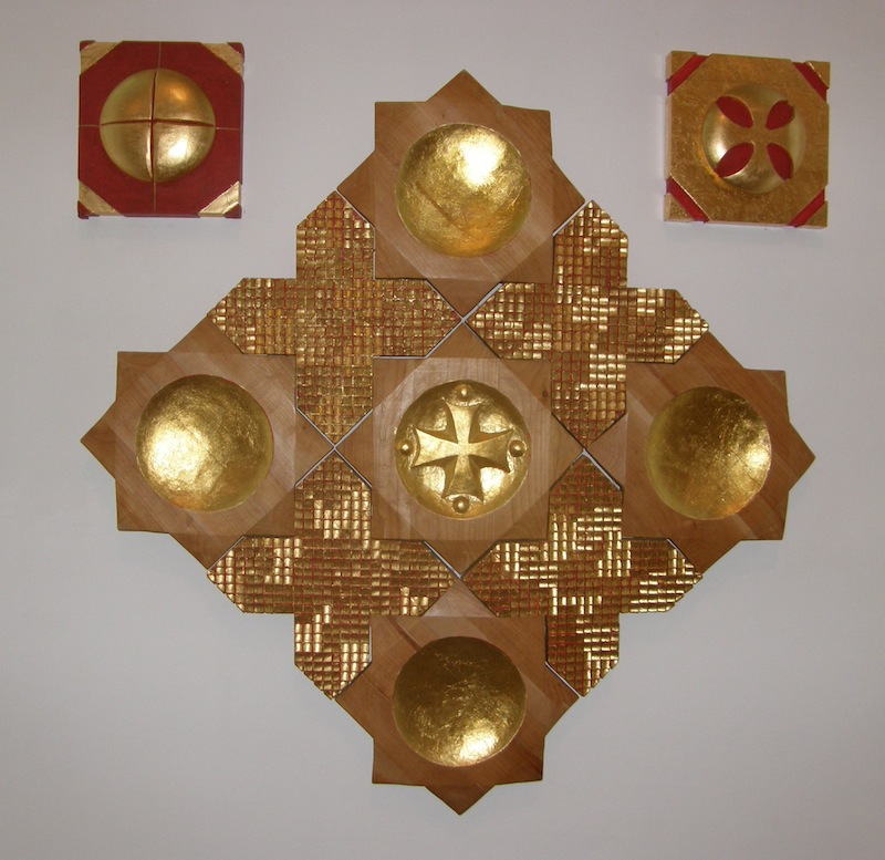 Sculptură în lemn (Silviu Oravitzan)